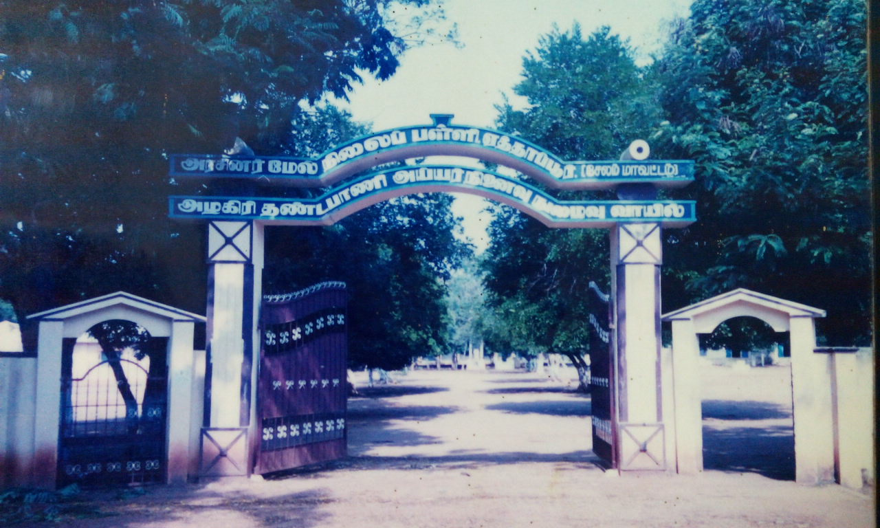 Govt. Hr. Sec. School, Yethapur - Alagiri Dhandapani Iyer Memorial Arch